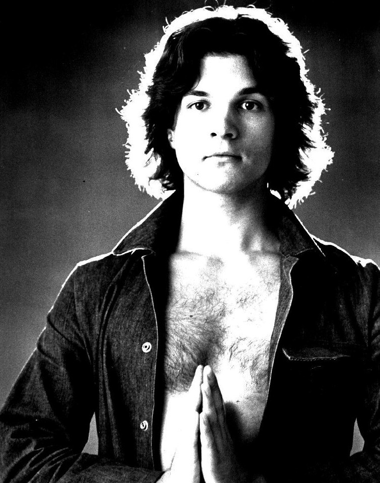 Photo of vocalist Alan Titus.